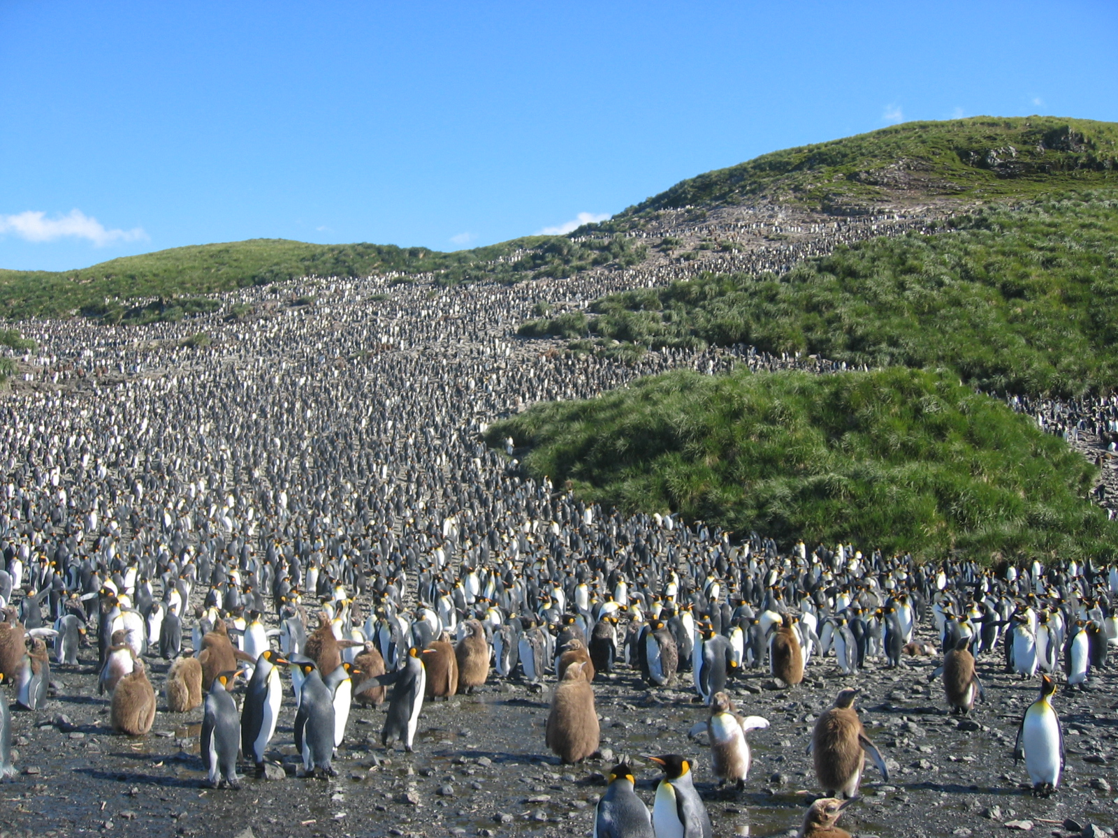 Great colony of about 60,000 pairs of hatching King Penguins (Aptenodytes patagonicus) in Salisbury plain on South Georgia.